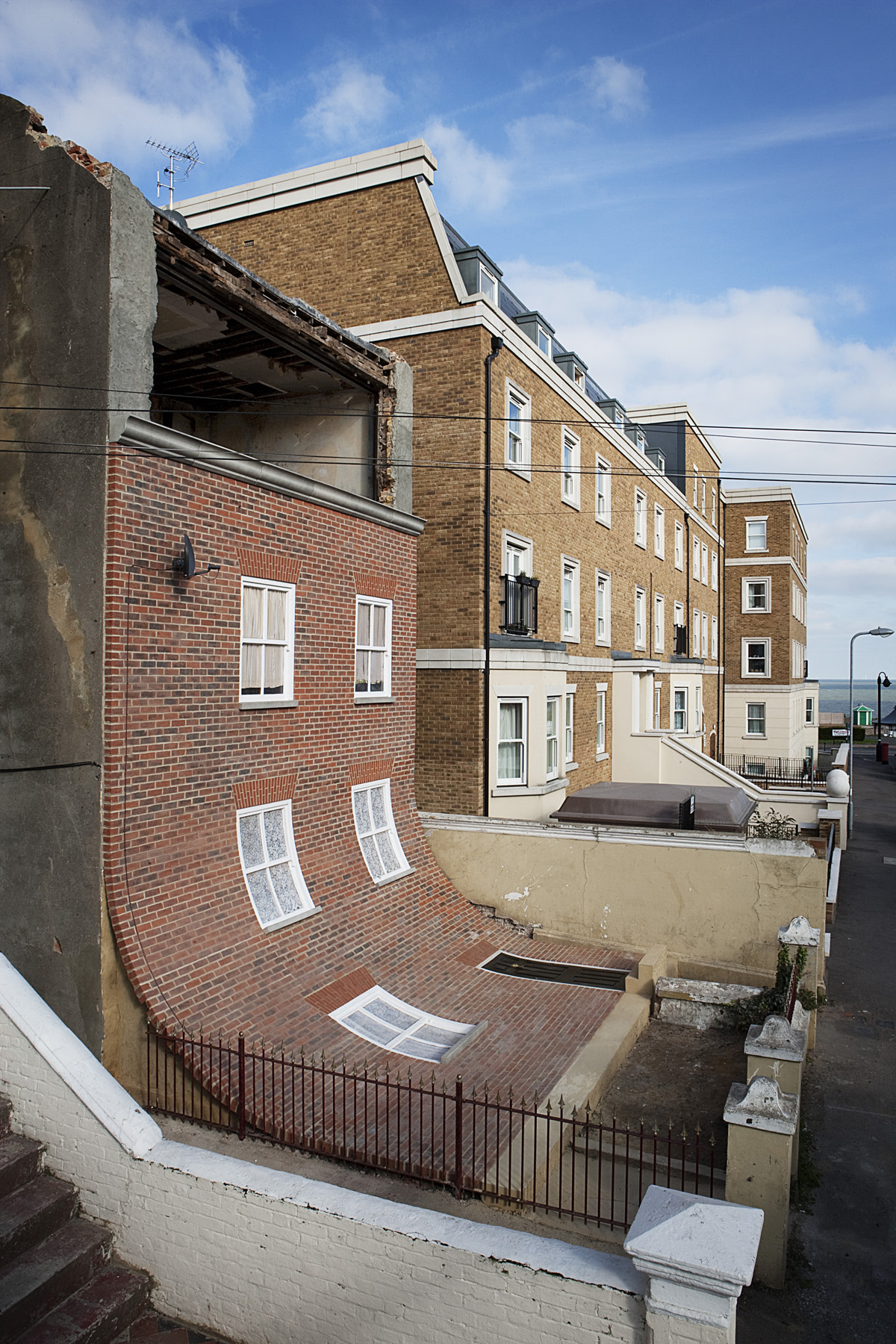 A photograph of Alex Chinneck's 'From the knees of my nose to the belly of my toes'